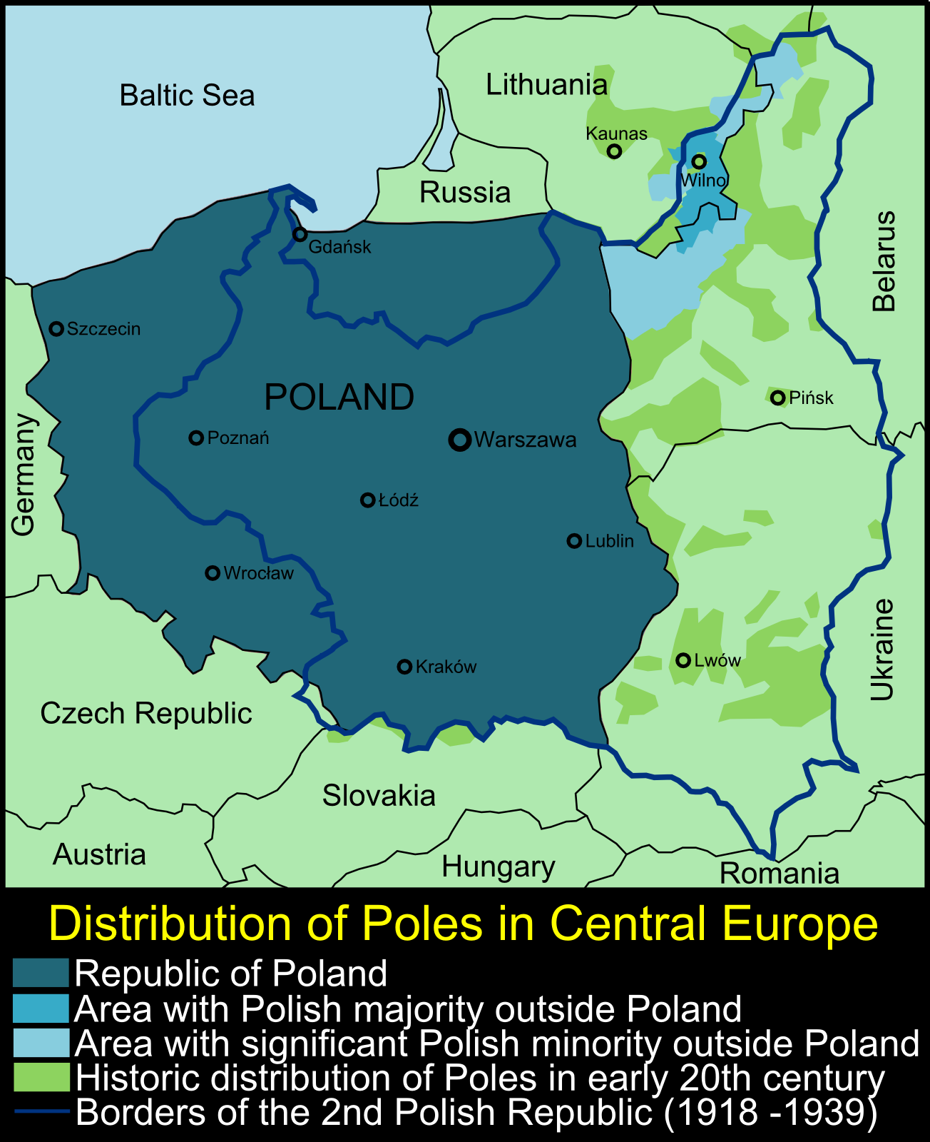 Distribution of Poles in Central EuropeRomână: Distribuţia polonezilor în Europa Centrală